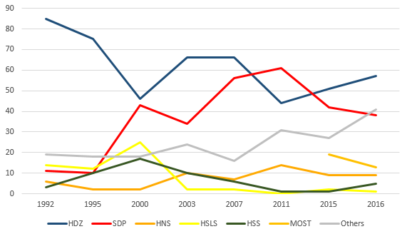 Croatian Sabor Seats - 1992-2016